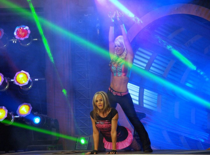 Beautiful People competing in 2008.